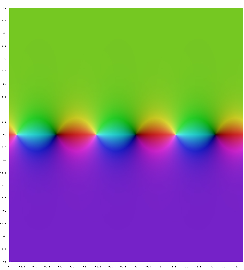 function Tan[z] in the complex plane